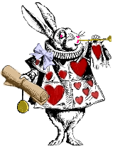 The White Rabbit from the Alice Adventures in Wonderland. Original art by, John Tenniel, Modified by me, GeeAlice, with a touch of color, and other modification, ie. removing background.